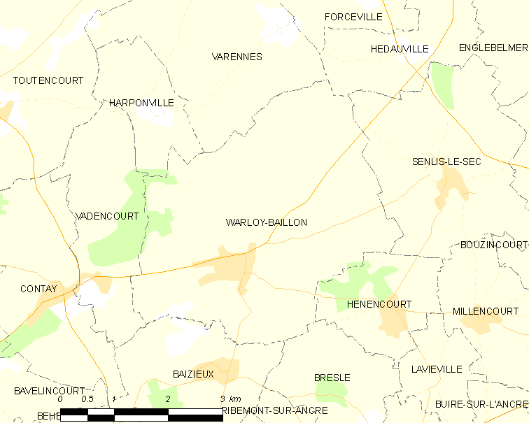 Map of French municipality Warloy-Baillon